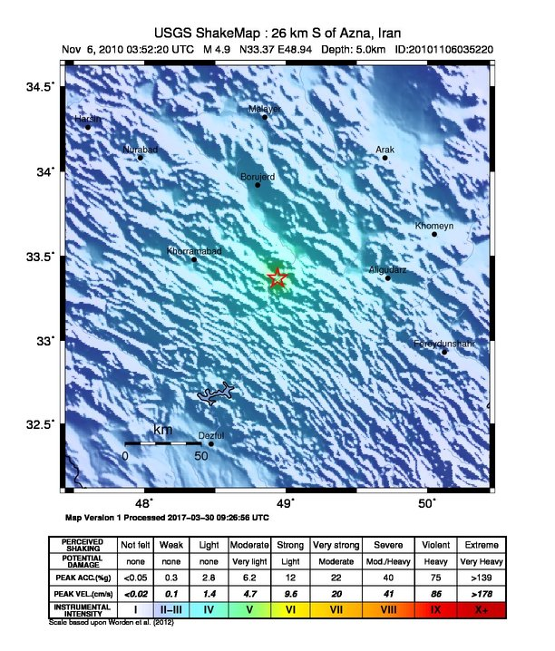 M 4.9 - western Iran 2010-11-06 03:52:20 (UTC)